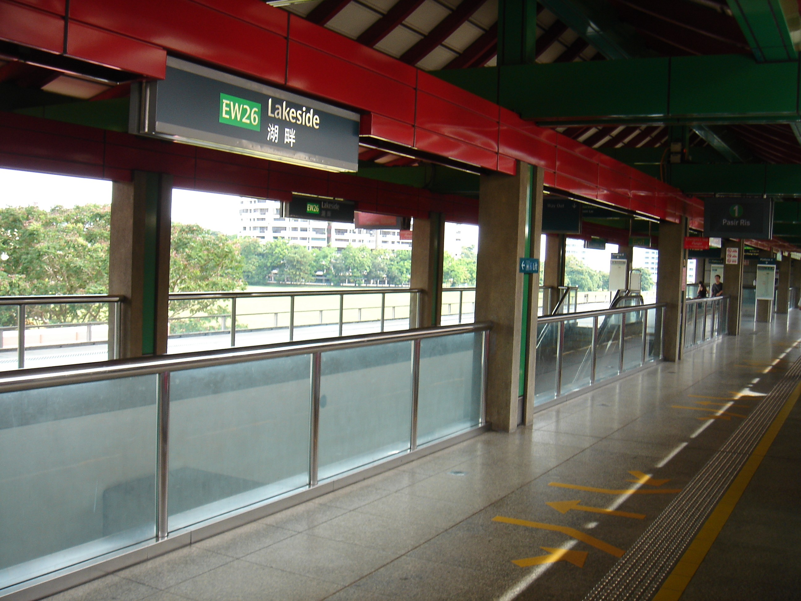 Lakeside MRT Station, on the East-West Line.